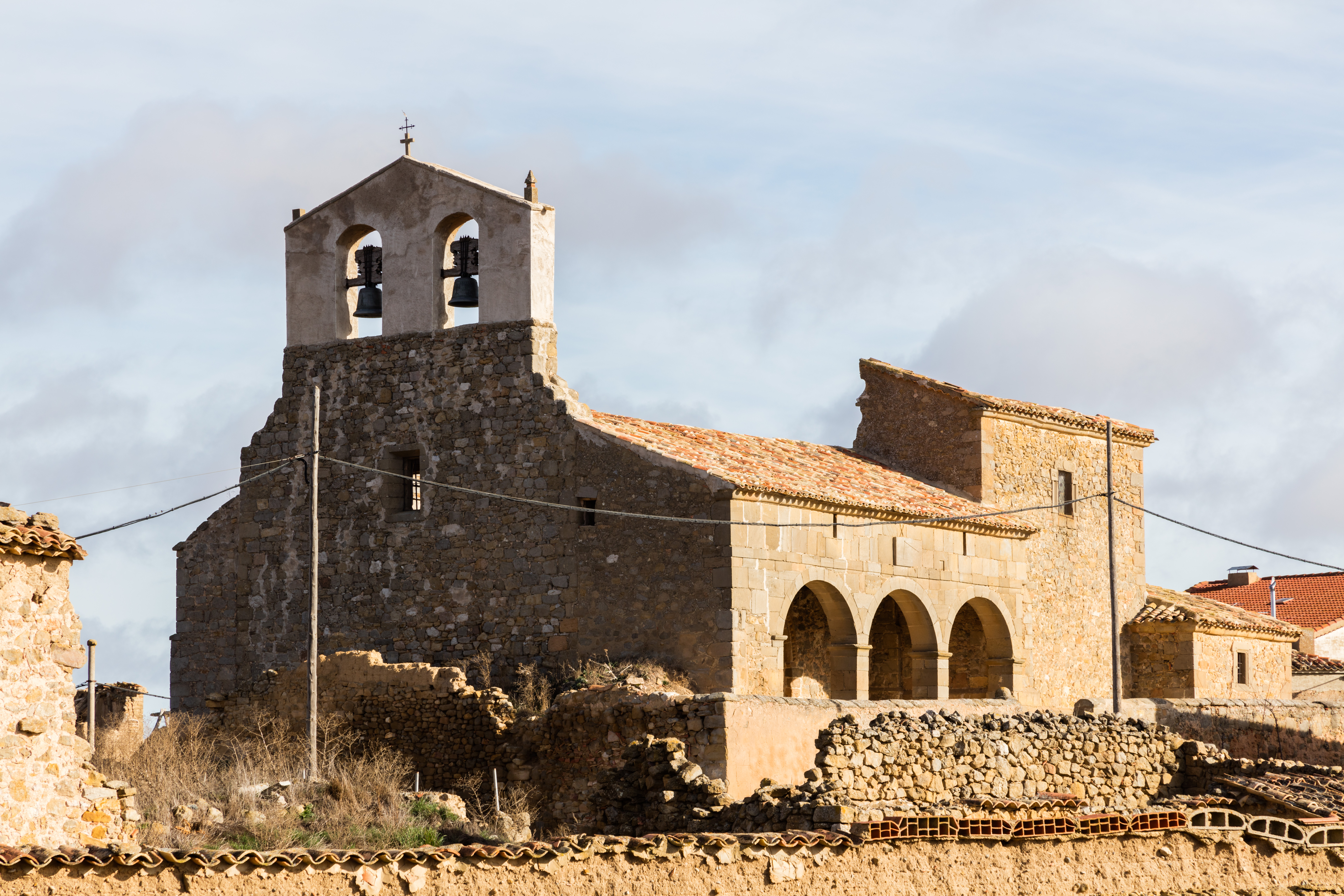 Church of the Assumption, Zárabes, Soria, Spain